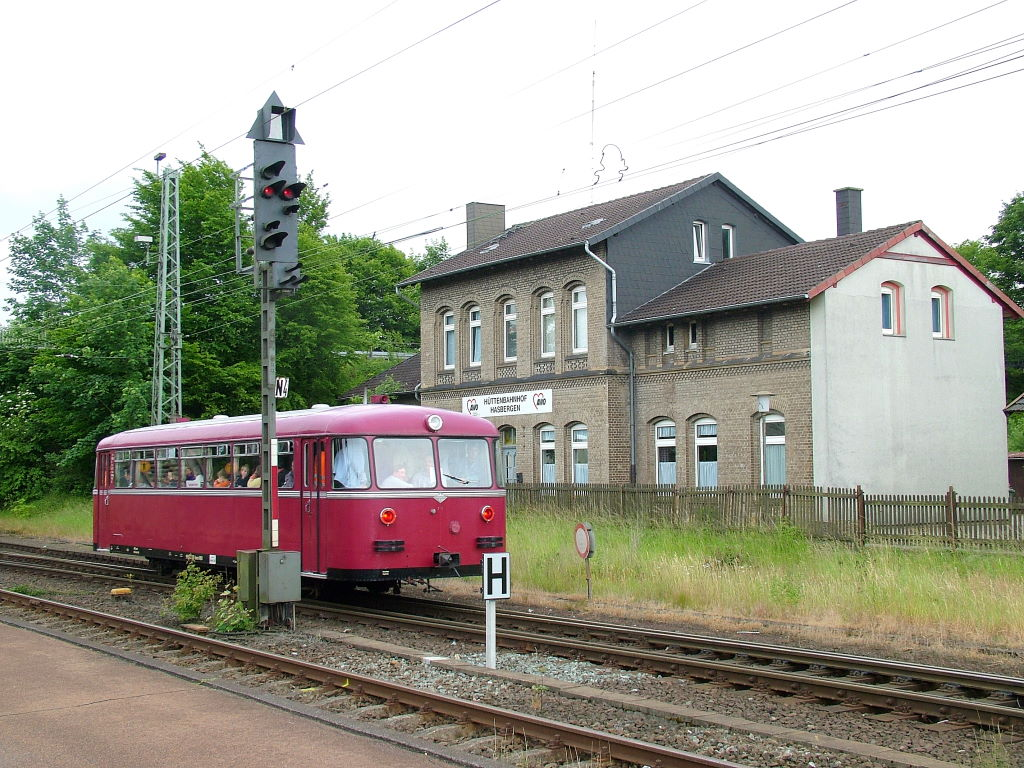 former train station Hasbergen of the Georgsmarienhütte railway